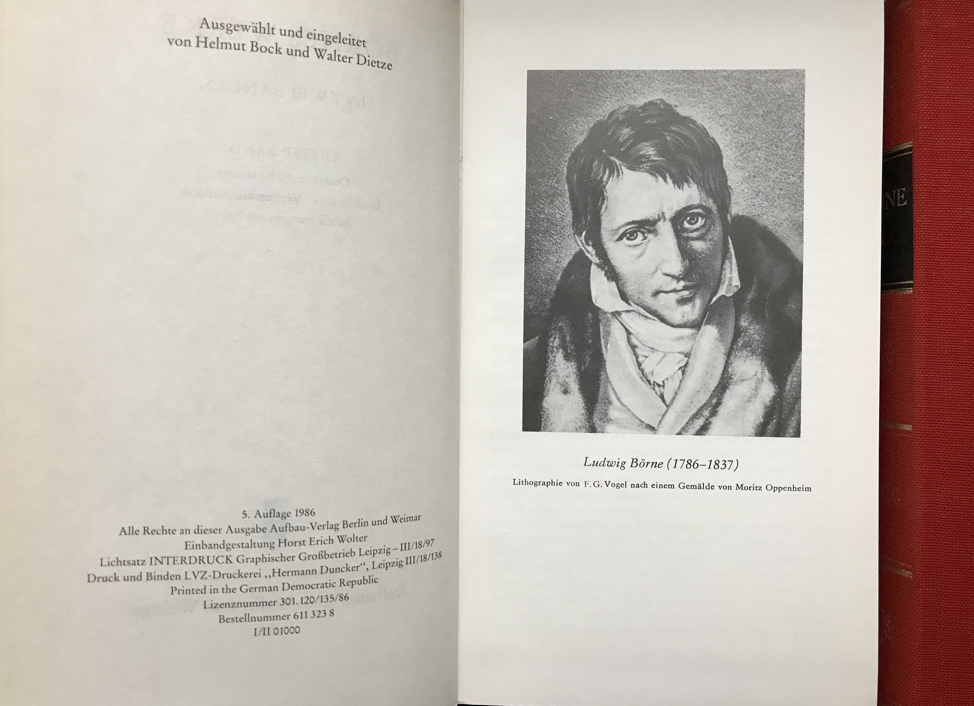 From volume 1 of Ludwig Börne's 2-volume edition as part of the large GDR series "Bibliothek deutscher Klassiker". (Design)